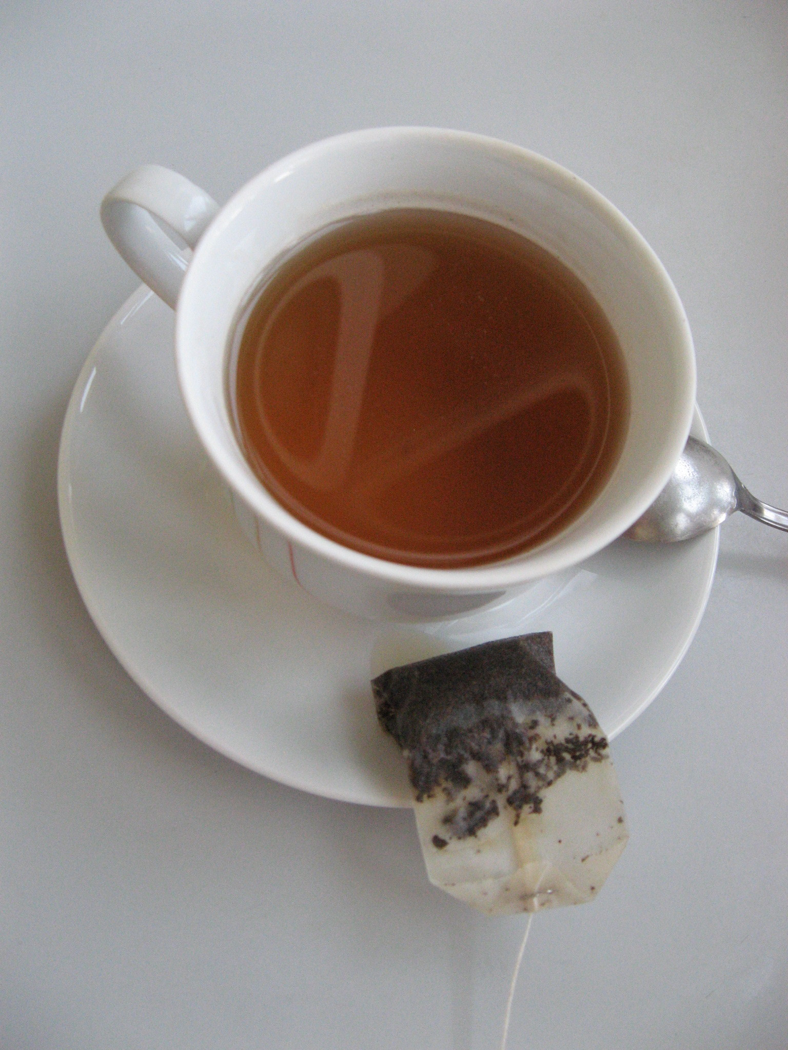 Tea-bag. It is made of a special type of nonwoven fabrics.